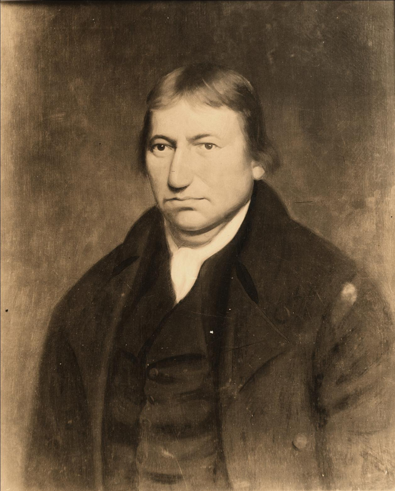 John Archer (1741-1810), B.M.1768 portrait painting